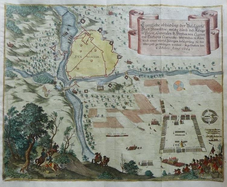 The Polish siege of the fortress Stavishche in Little Russia 1664